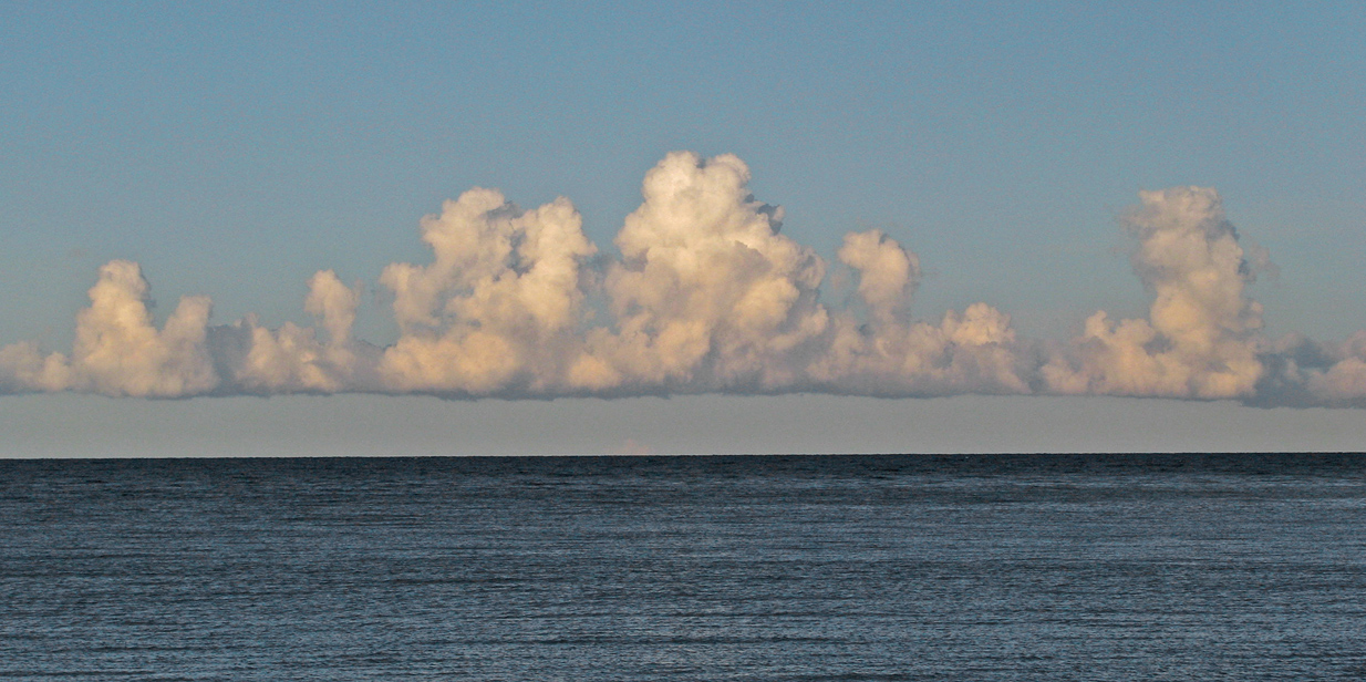 Cloud formation over the sea at Kåseberga - Sweden.